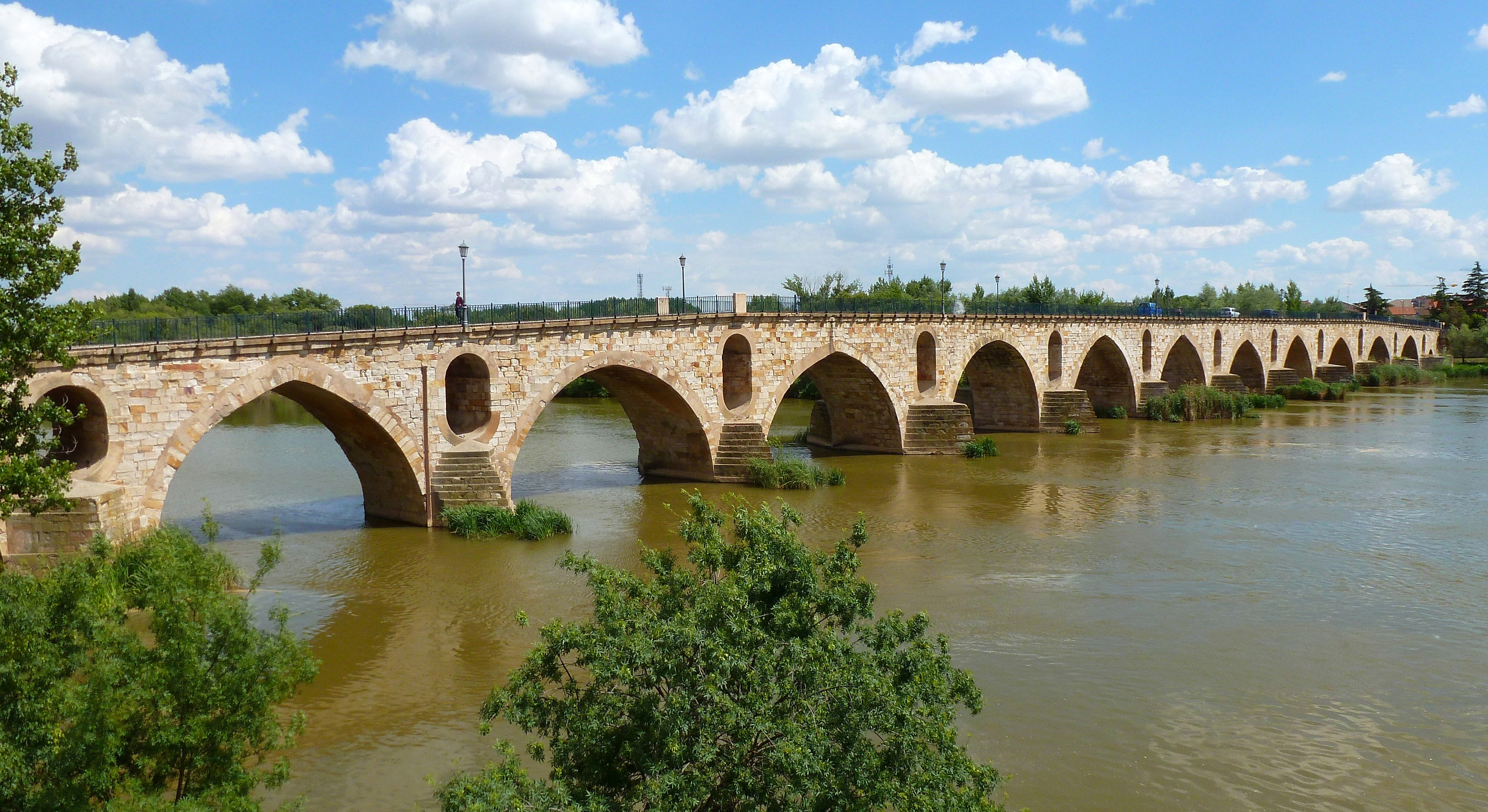 Stone Bridge, Zamora, Spain.